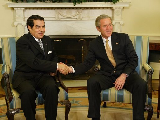 President George W. Bush meets with Tunisian President Zine Al-Abidine Ben Ali in the Oval Office Wednesday, February 18, 2004.